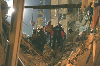 Oklahoma City, OK, April 25, 1995 -- Search and Rescue Team explores remains of the Alfred P. Murrah Federal Building in Oklahoma City, OK. FEMA News Photo